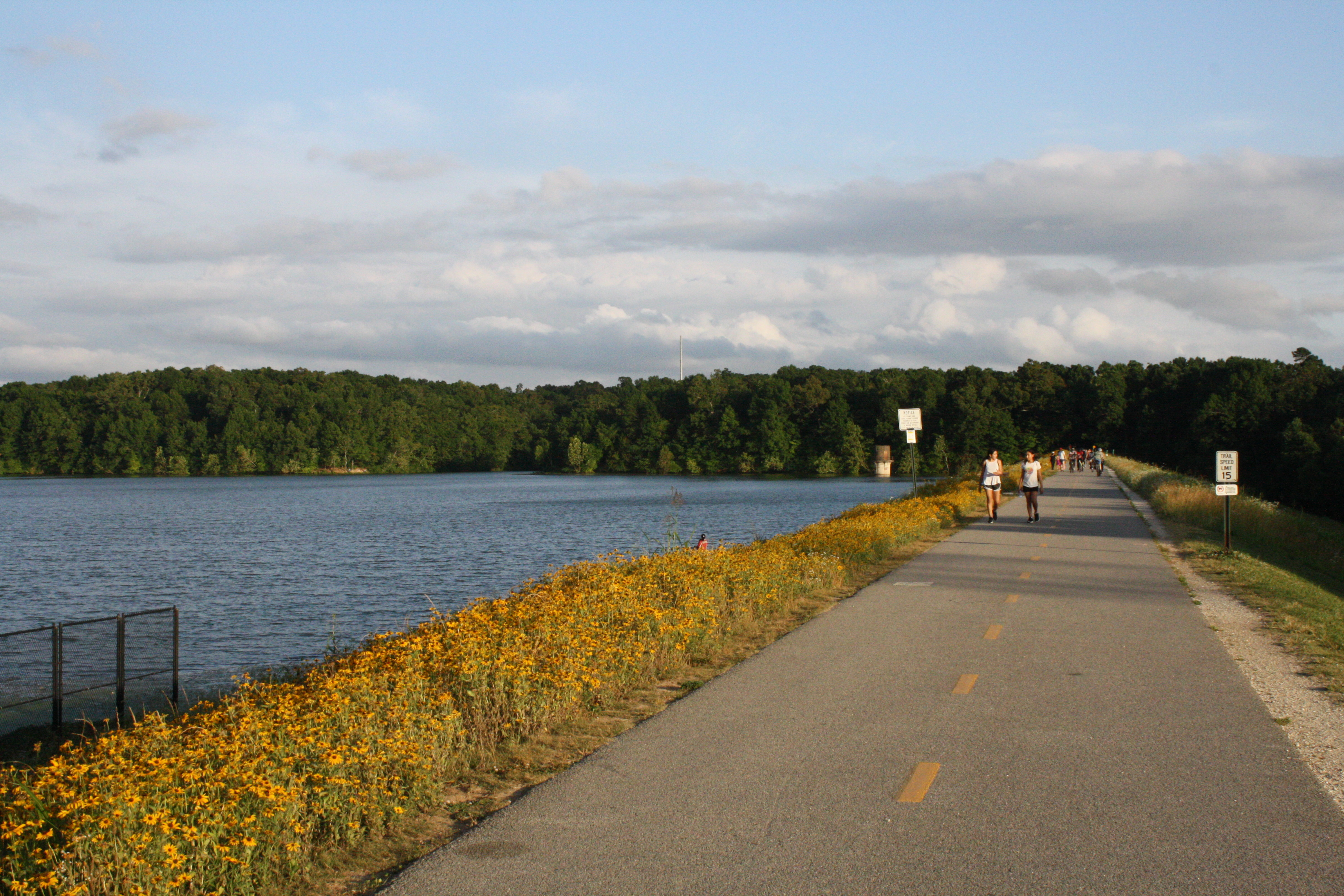 Looking south on the Northwest Arkansas Razorback Regional Greenway, with Lake Fayetteville on the left